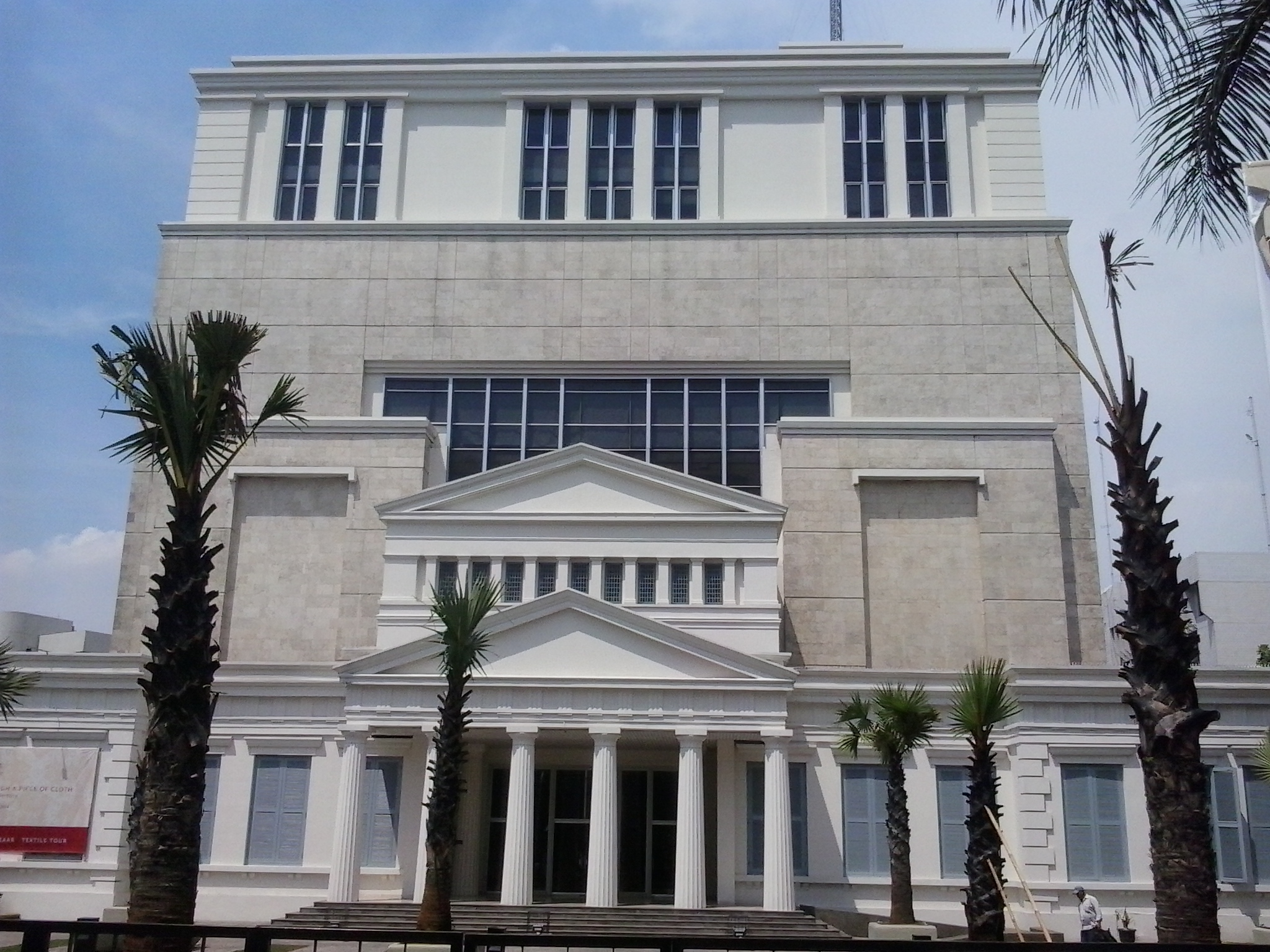 Front view of the Statue Building of the National Museum in Jakarta.